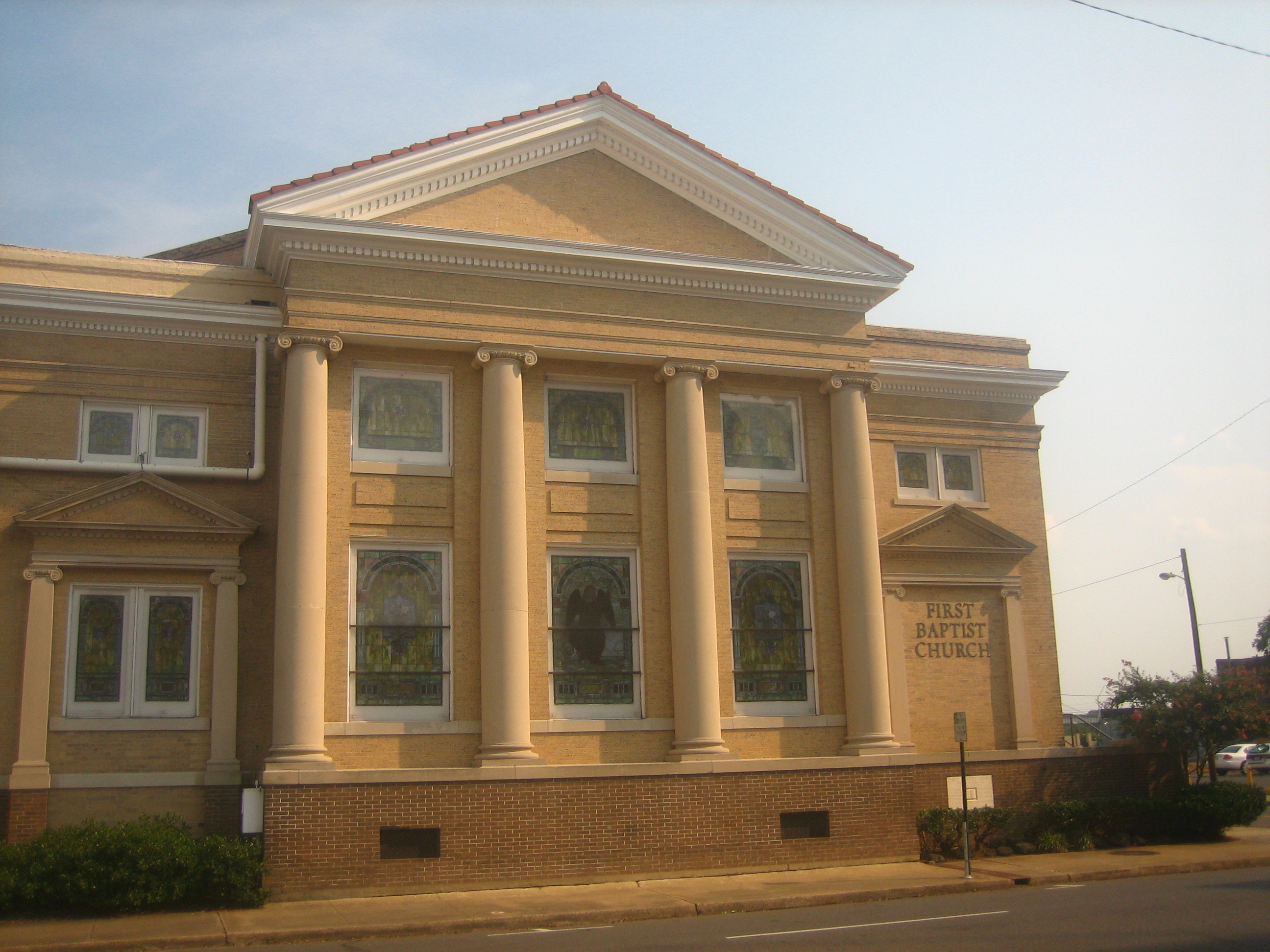 I took photo on Aug. 2, 2008.Billy Hathorn (talk) 04:15, 17 August 2008 (UTC)